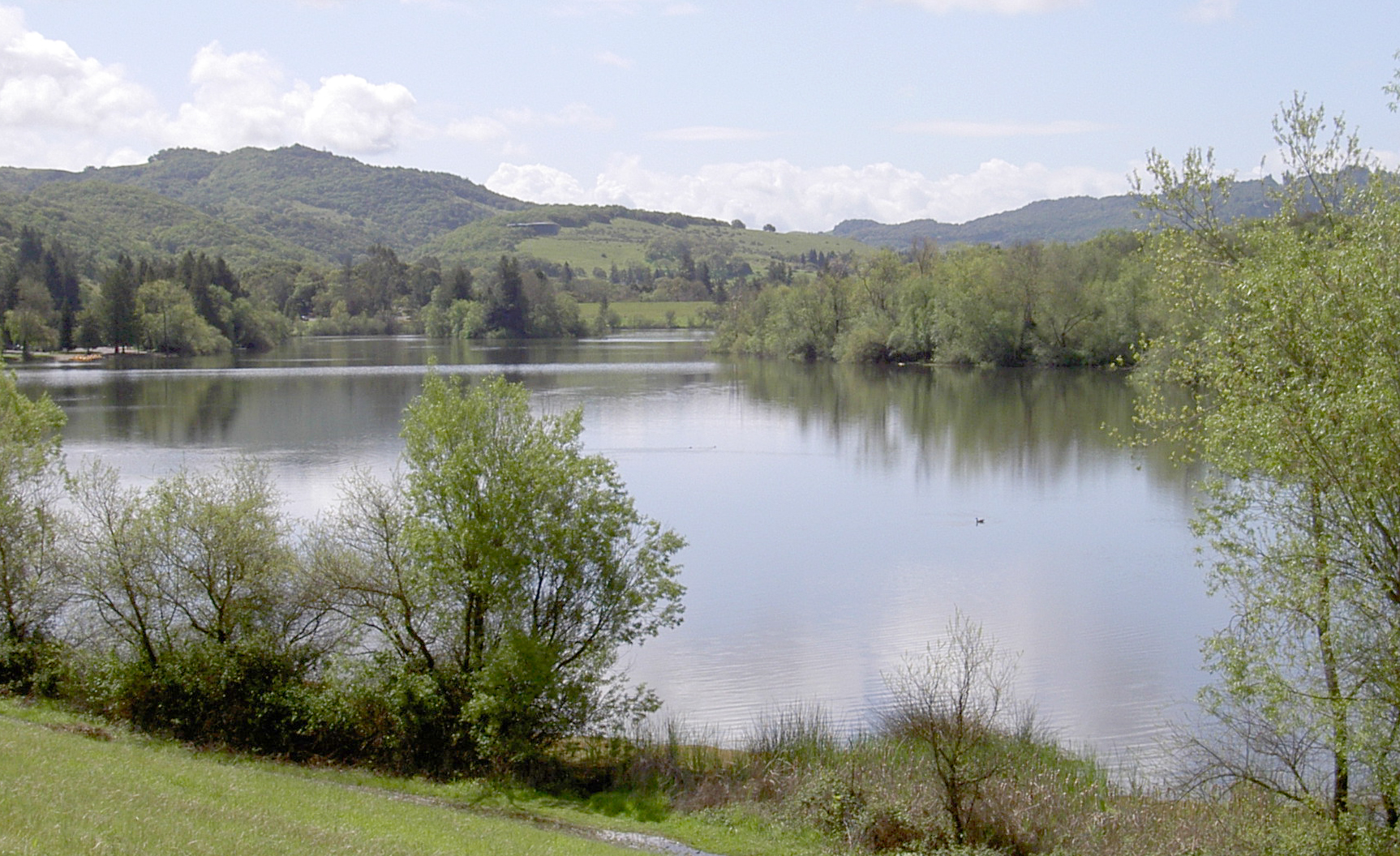 Santa Rosa Creek Reservoir in Spring Lake Regional Park in Santa Rosa, Sonoma County, northern California, U.S. Viewed from the north end of the eastern dam